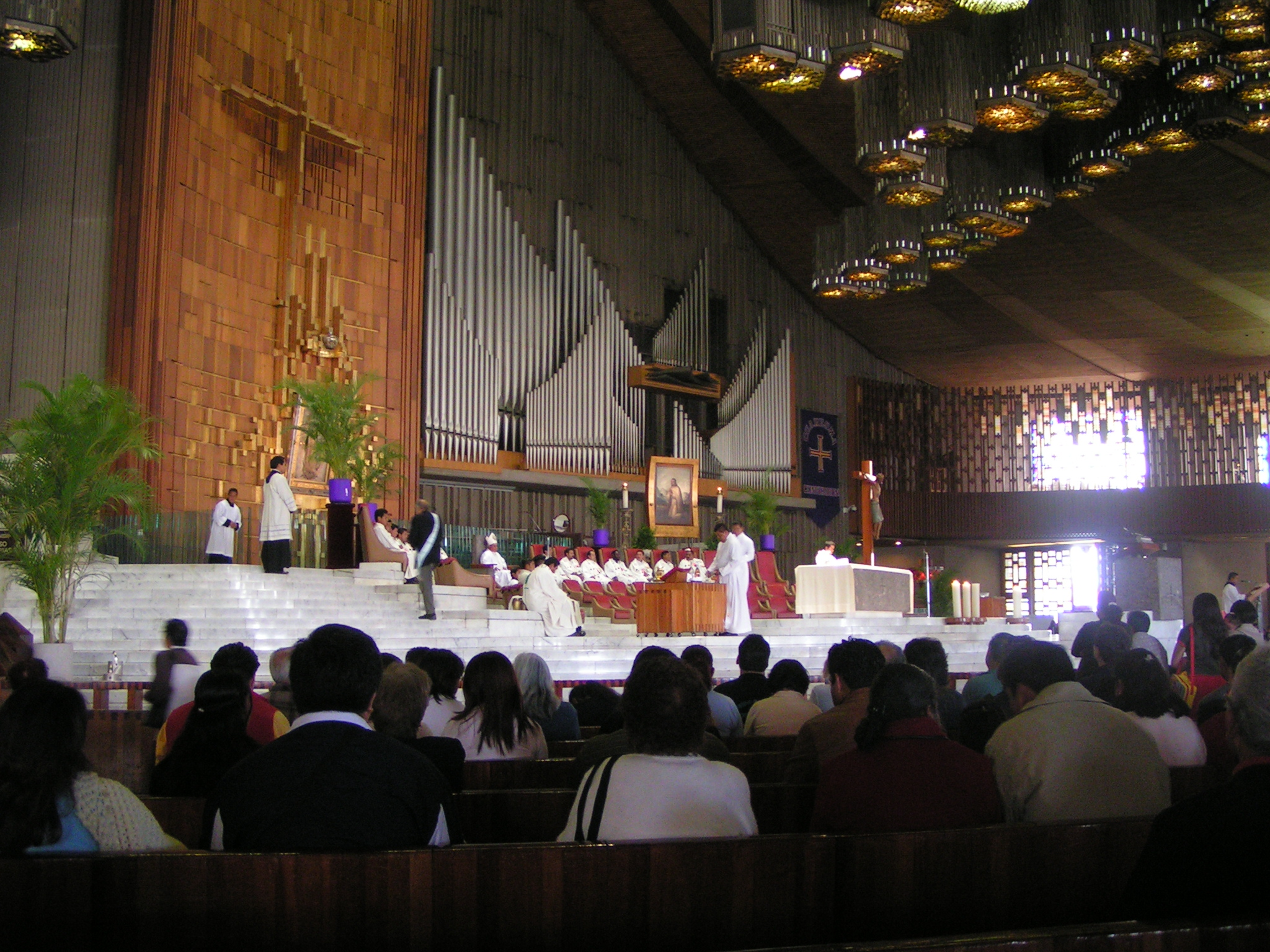 Description: Basilika of Our Lady of Guadalupe (interior), Mexico City Source: Picture taken by Jan Zatko, March the 16th, 2005